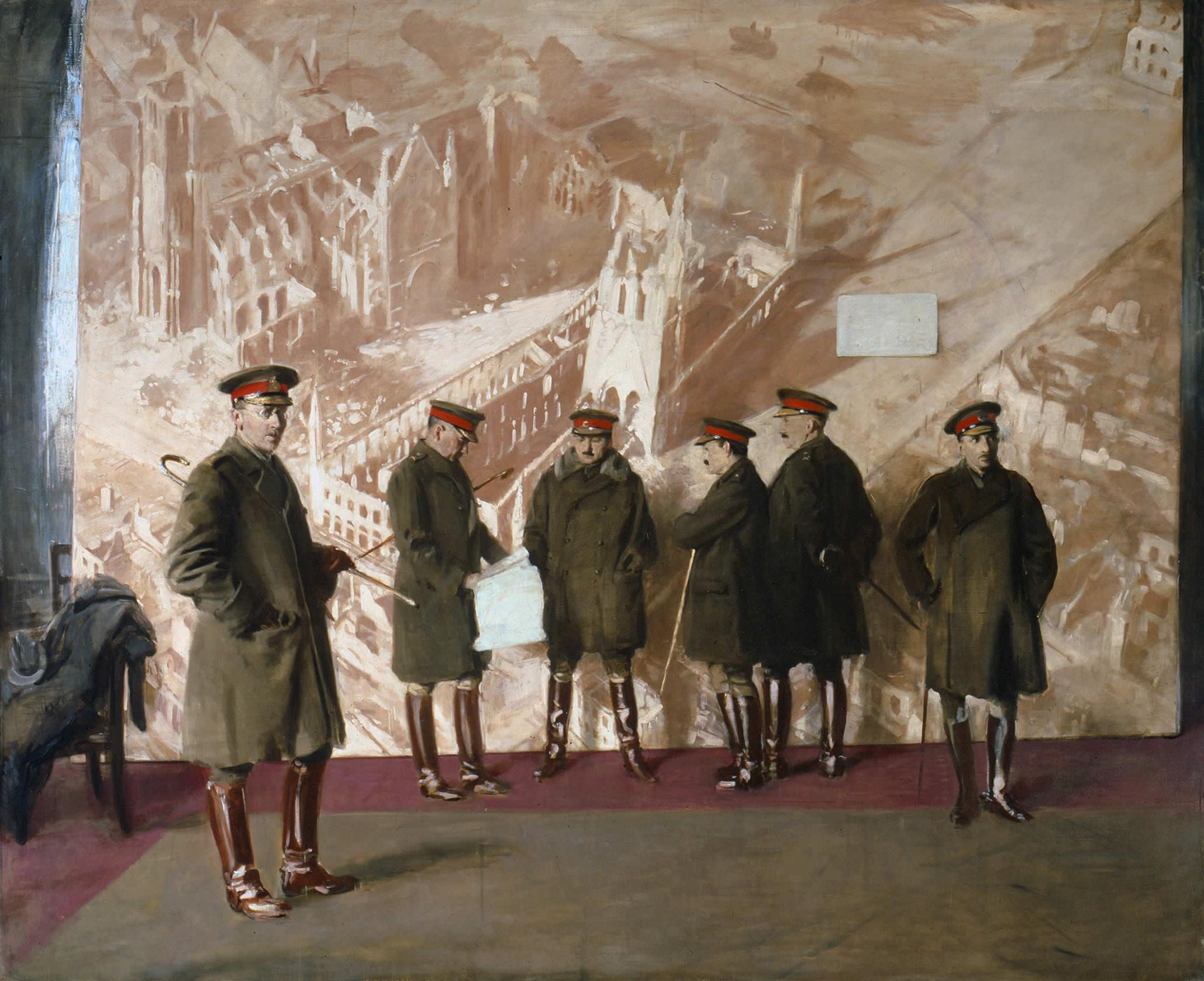 This painting by British artist Sir William Nicholson depicts five Canadian generals and one major of the First World War standing unposed in front of a mural of the bombed Ypres Cathedral and Cloth Hall. This unfinished painting originally commissioned by Lord Beaverbrook was quickly forgotten, only to be rediscovered in the vaults of the Canadian War Museum and later hailed as Nicholson's finest work. Nicholson captured the officers in the moments before they sat for an official portrait. Unconventional for the officers' less than heroic stance, it has been argued that Nicholson may have viewed his subjects with a measure of cynicism, possibly influenced by the death of his own son in the First World War. A group portrait of Generals Richard Turner, Alexander McRae, Harold McDonald, Gilbert Foster and Percival Thacker and Major Furry Montague. In style and mood, the composition owes much to the portraits of Malcolm Arbuthnot, who had photographed William Nicholson's children in uniform a year earlier, in poses similar to those of the generals. Depicted people: Richard Ernest William Turner, Alexander Duncan McRae, Harold French McDonald, Gilbert Lafayette Foster, Percival Edward Thacker and Furry Ferguson